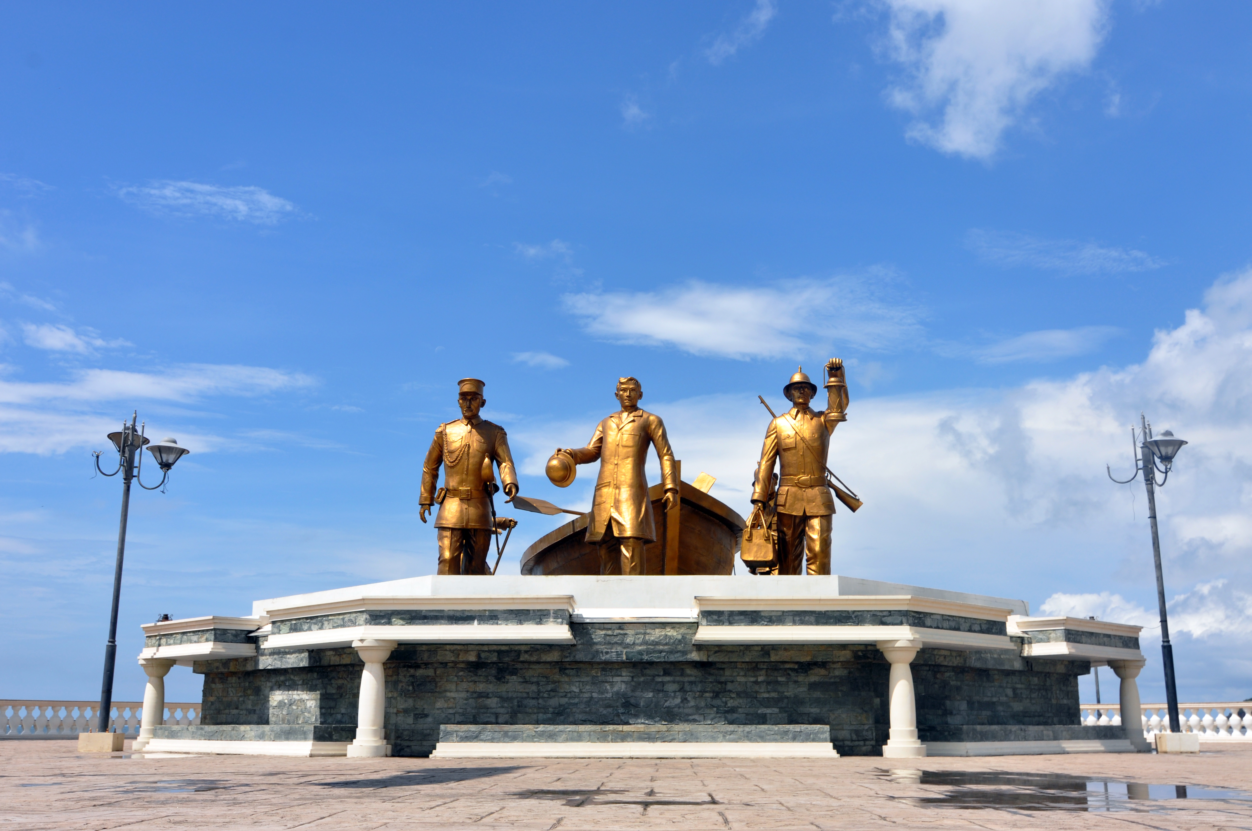 Old heritage structure in the old town of Dapitan City, Zamboanga del Norte